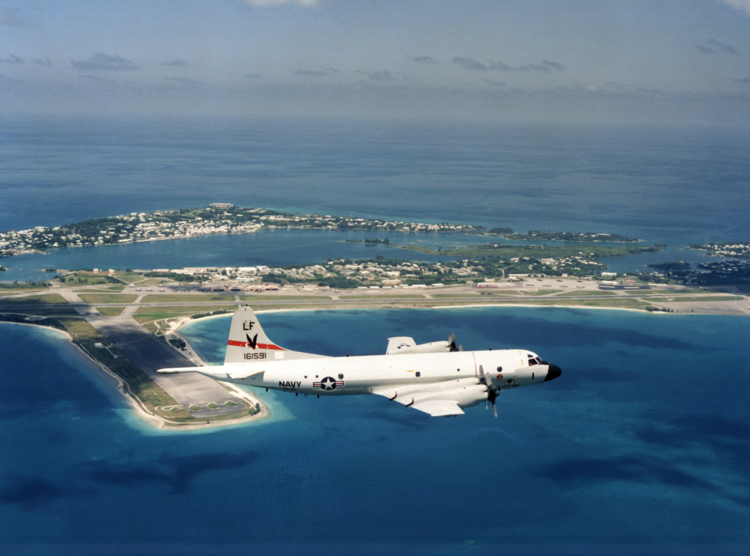 A U.S. Navy Lockheed P-3C Orion (BuNo 161591) from Patrol Squadron 16 (VP-16) War Eagles returning from an anti-submarine tracking mission to the U.S. Naval Air Station Bermuda on 10 October 1985. The squadron, based in Jacksonville, Florida (USA), was deployed to NAS Bermuda.